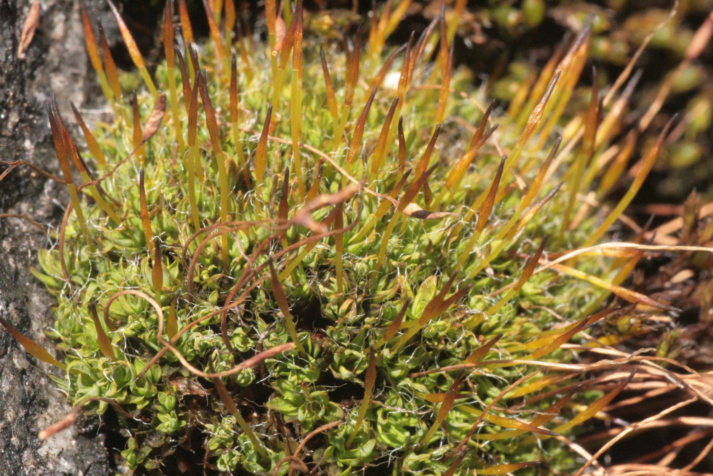 Tortula muralis